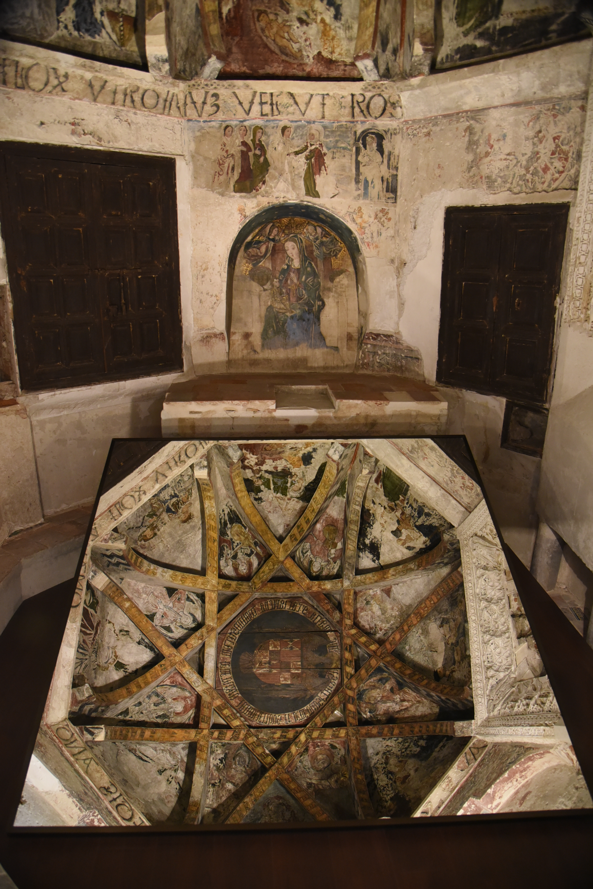 TOLEDO, 27 de marzo de 2019.- Colección Roberto Polo en el Museo de Santa Fe. (Fotos: José Ramón Márquez // JCCM)